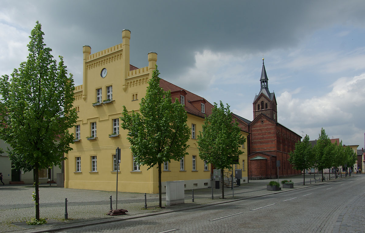 Town hall and church of Peitz, Brandenburg, Germany